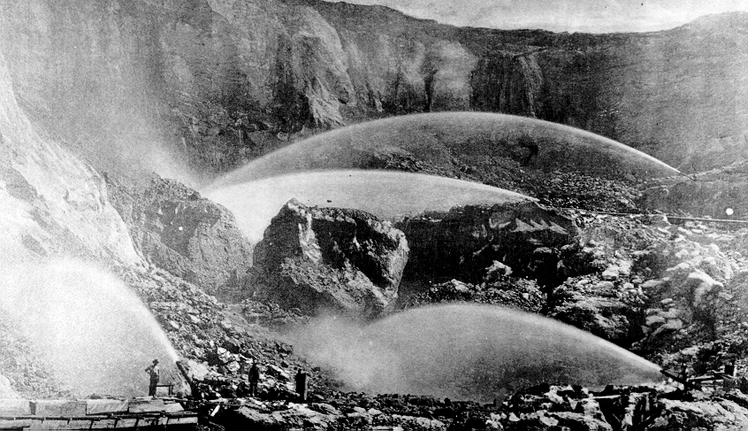 "Piping four streams from monitors (giants), with aggregate discharge of 2,500 miner's inches at a hydraulic mine. Material is washed through bedrock cuts to the sluices which are not visible."[1]